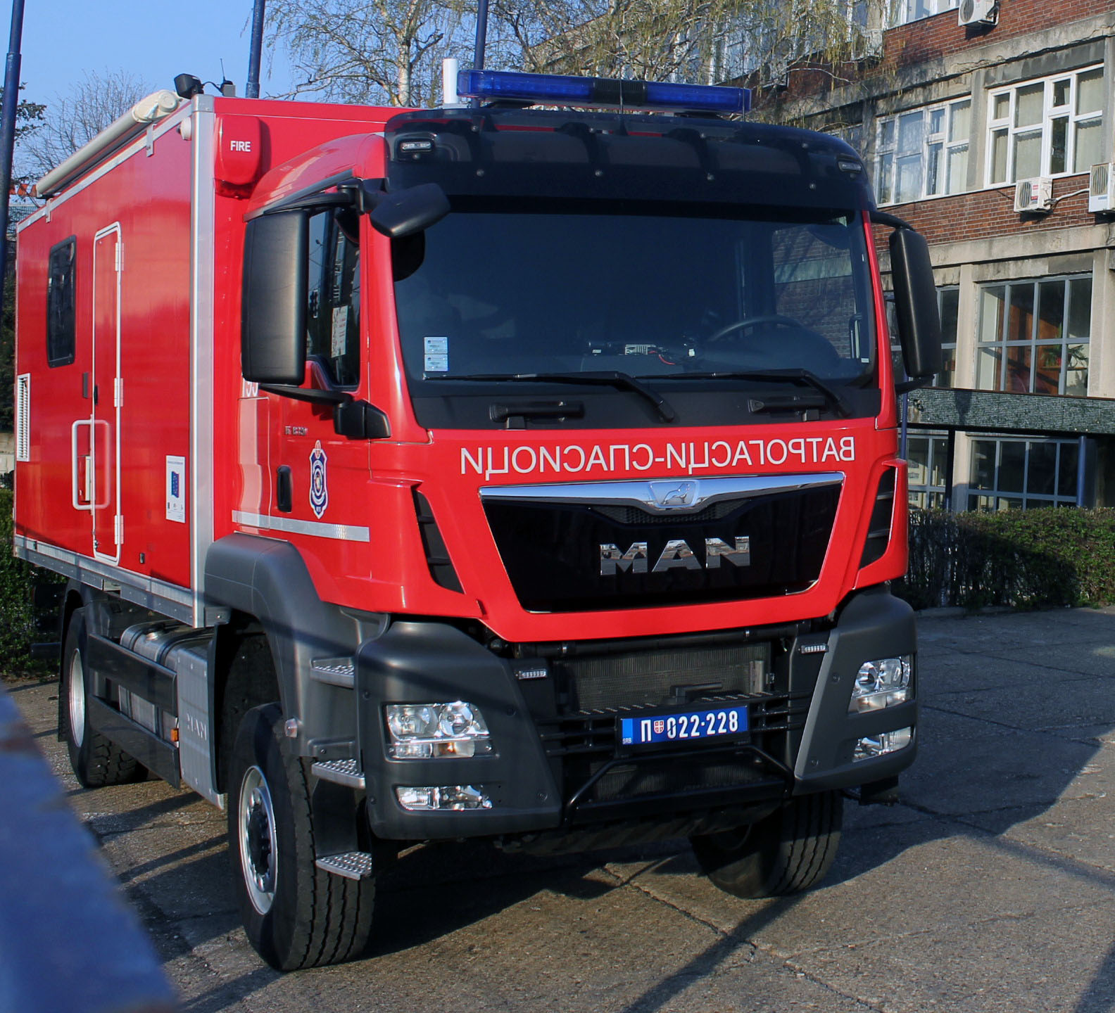 Serbian fire and rescue department MAN TGM command vehicle.